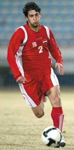 Belal Abduldaim - Syrian football player